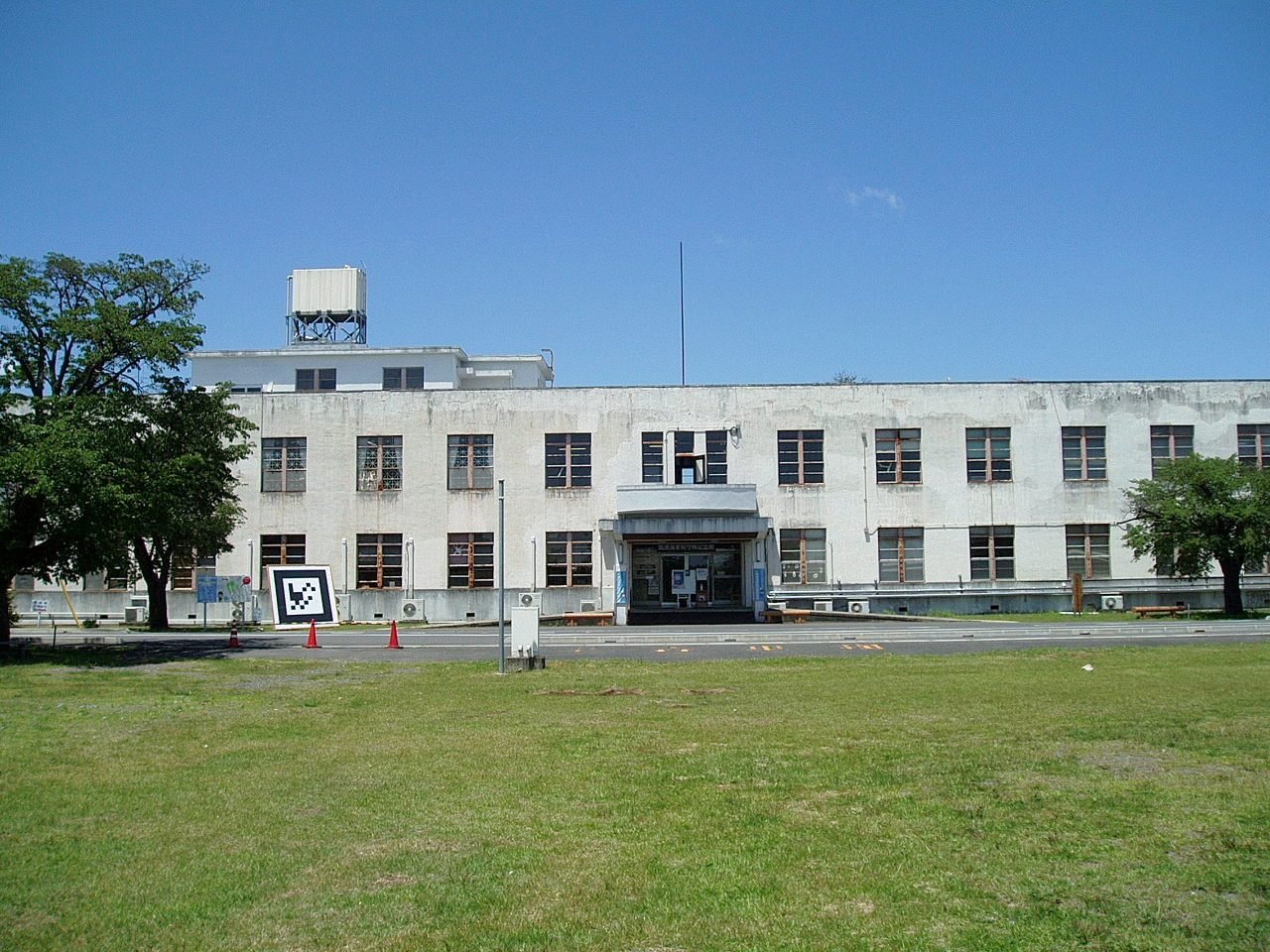 Former office of Tsukuba Naval Air Group command unit, located in Kasama, Ibaraki, Japan.